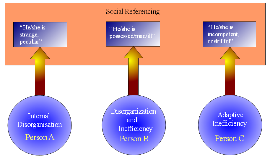 Based on information from Tapu, CS, Hypostatic personality: psychopathology of doing and being made, Premier, 2001